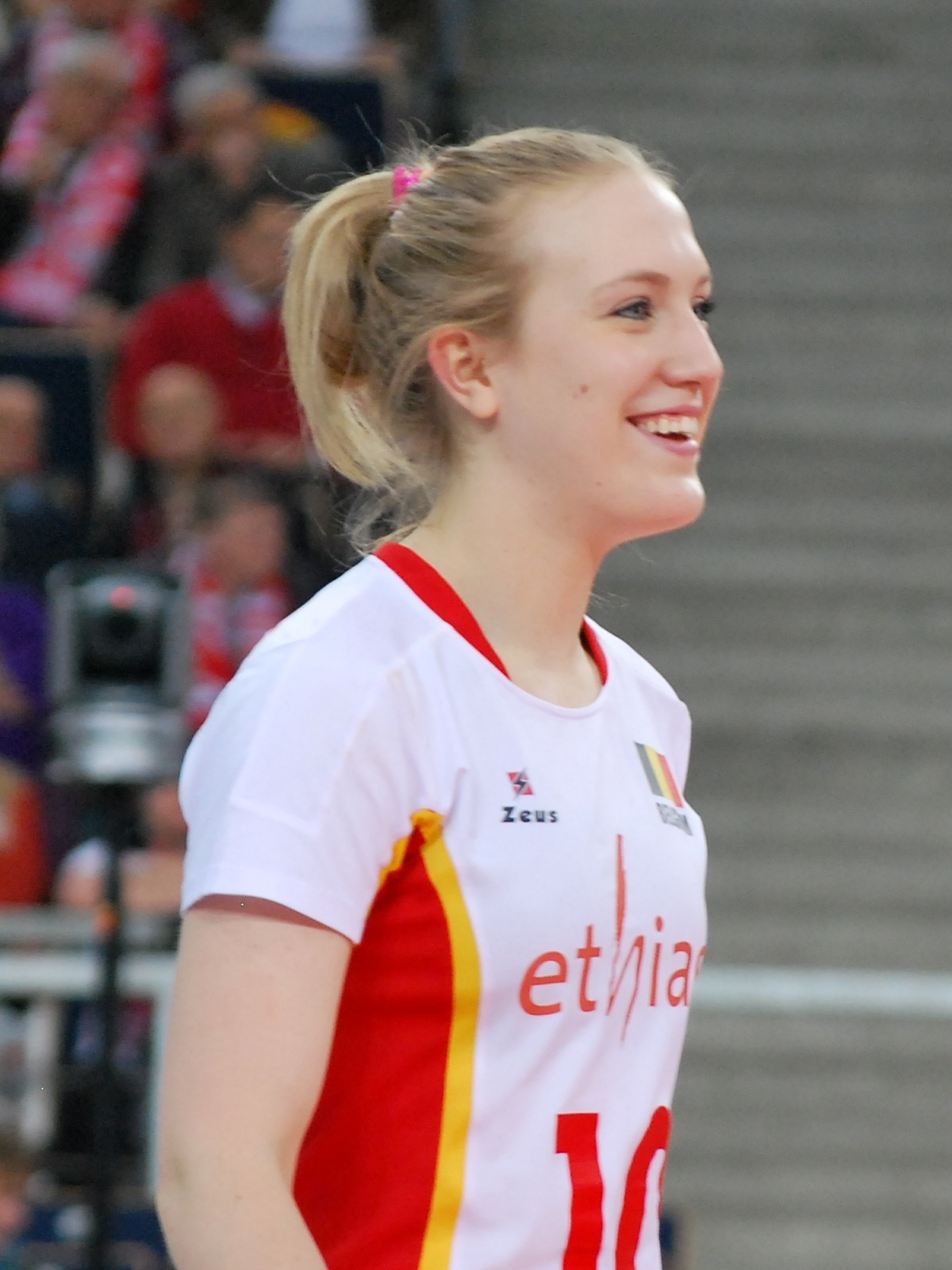 FIVB World Championship European Qualification Women Łódź January 2014. Lise Van Hecke - volleyball player from Belgium